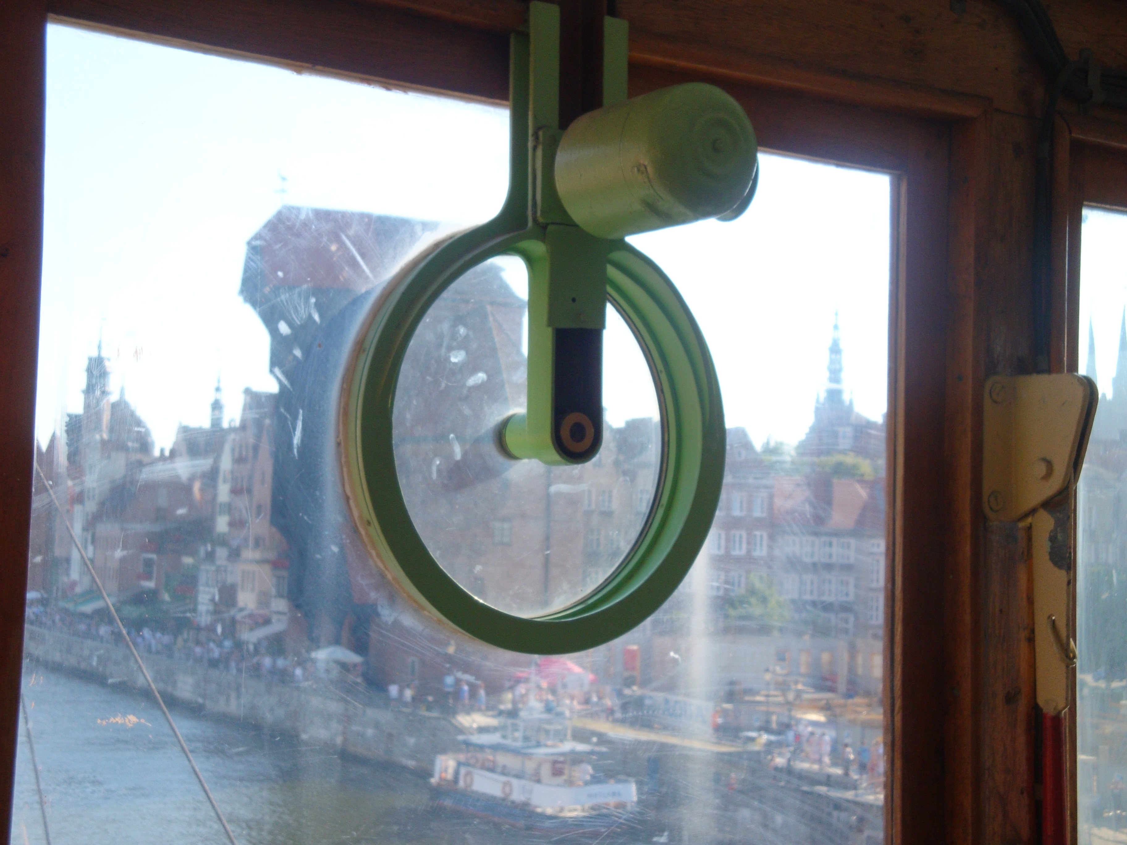 Museal ship S/S Sołdek in Gdańsk, Poland